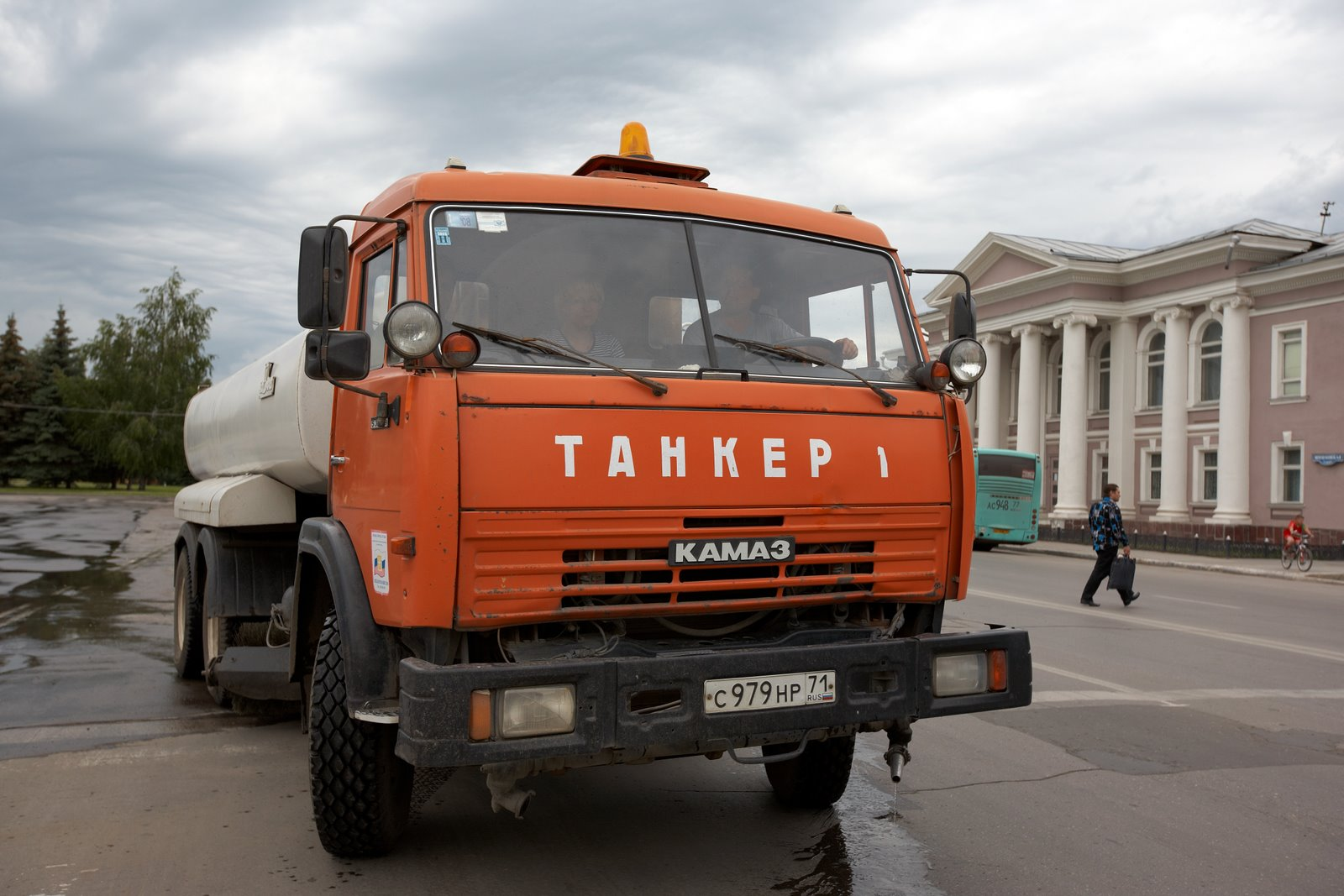 KamAZ truck in Tula, Russia.